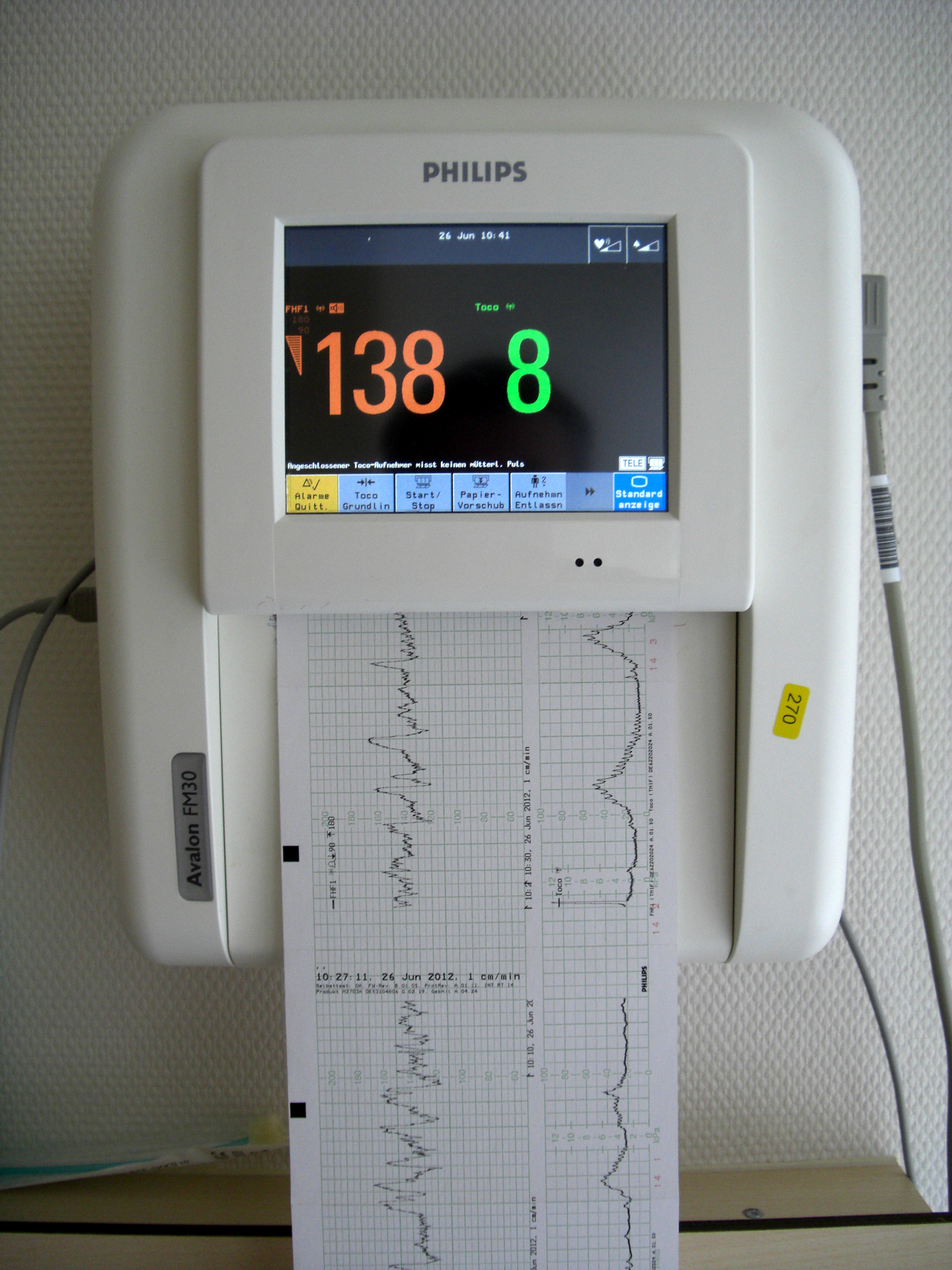 cardiotocograph